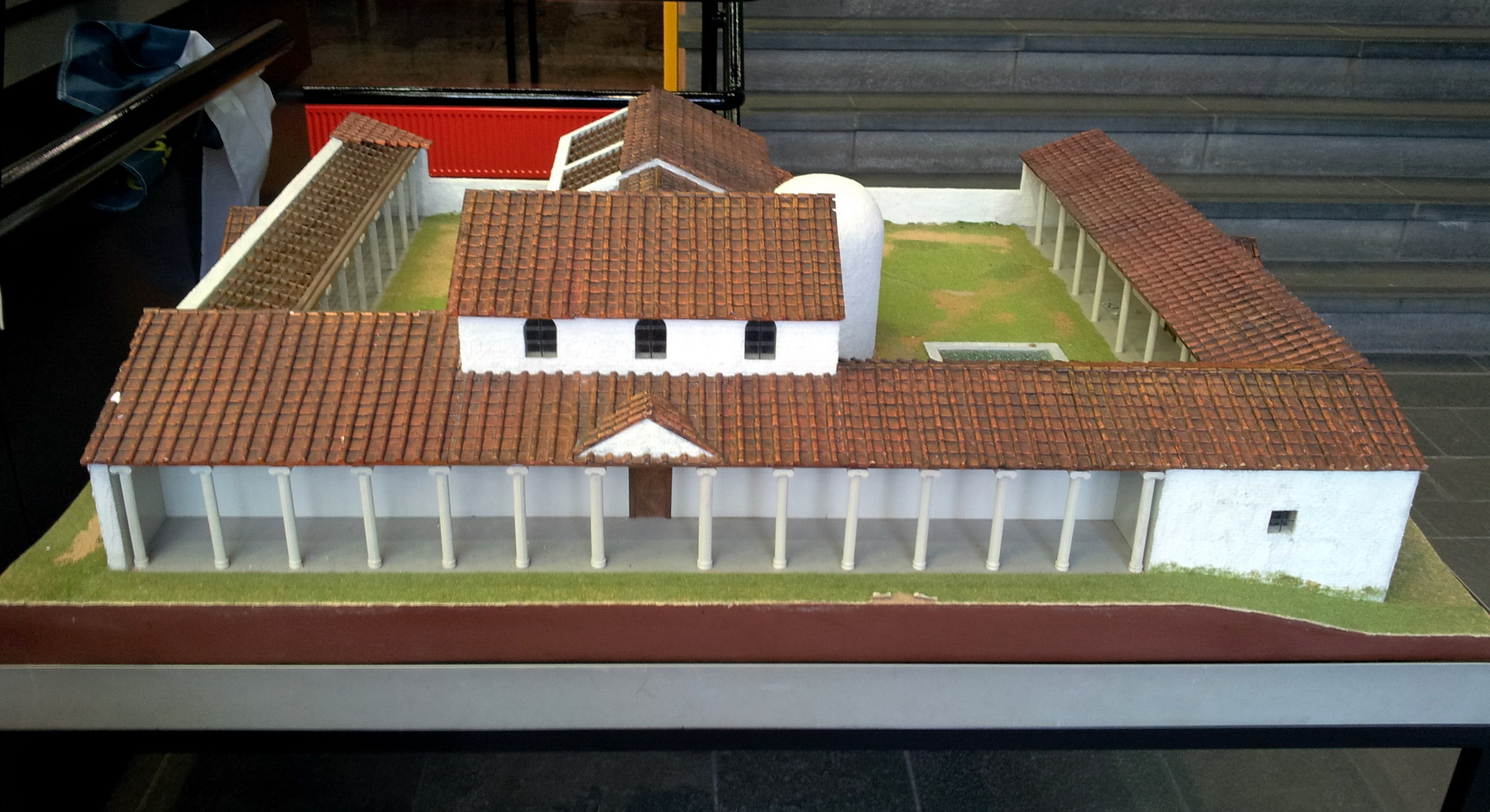 Thermenmuseum, Heerlen, the Netherlands. Scale model of the Roman bath house in Heerlen, as displayed in the entrance hall of the museum.